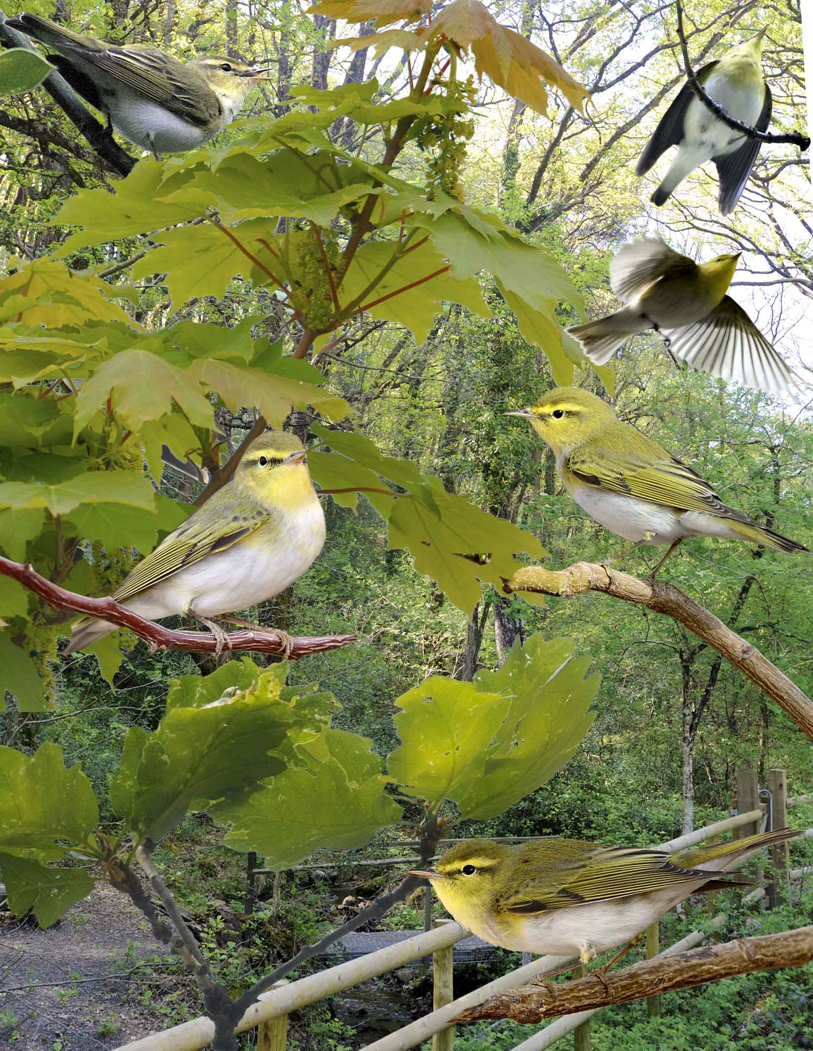 Wood Warbler from the Crossley ID Guide Britain and Ireland